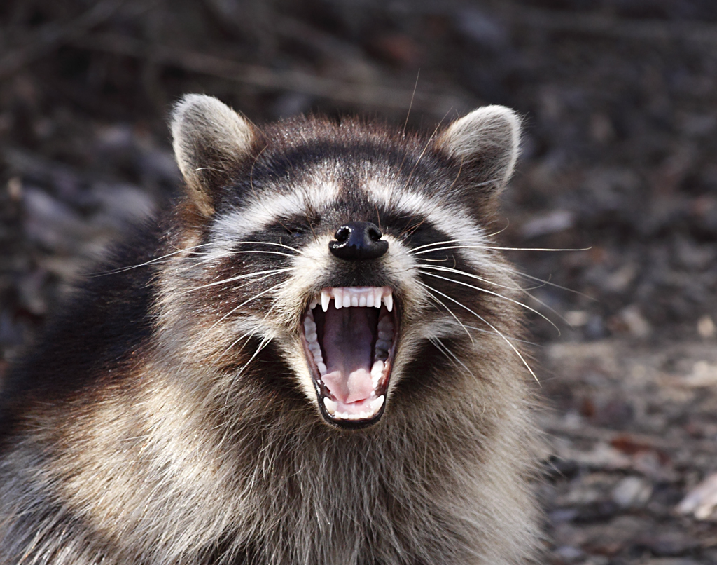 Yawning Raccoon.